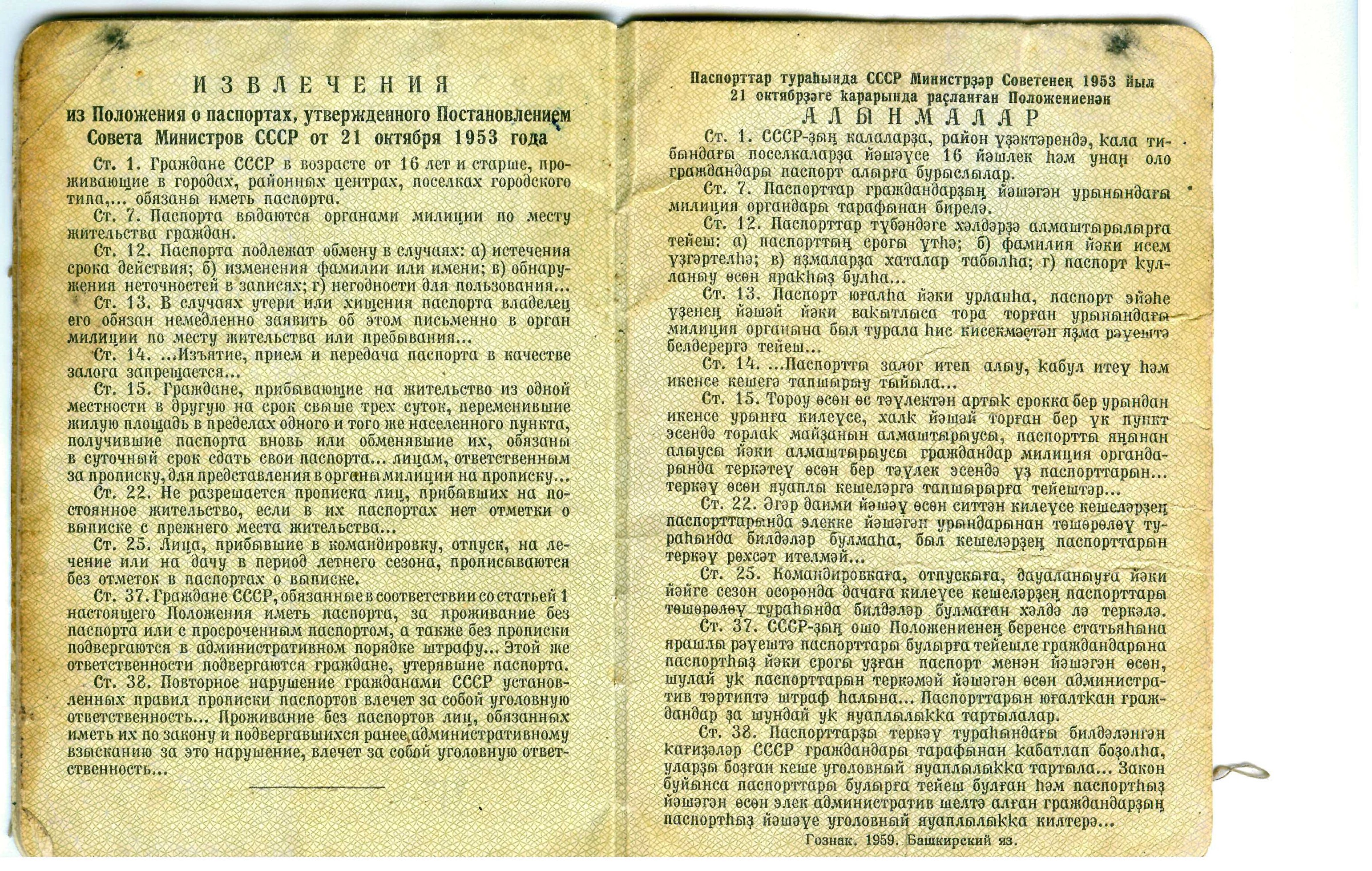 Passport of USSR in russian and bashkir languages, 1959 years